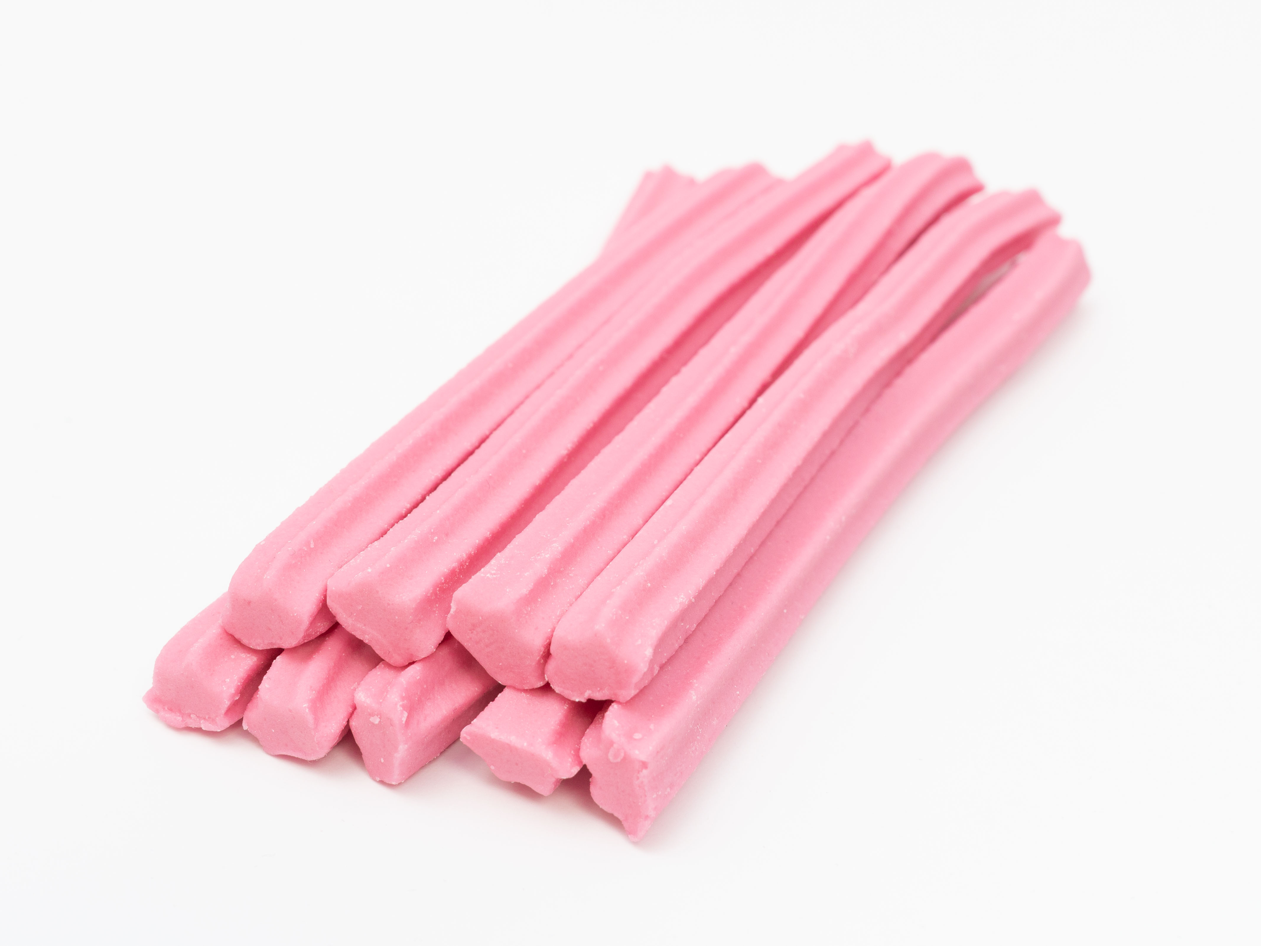 A pile of musk sticks. Coles brand.